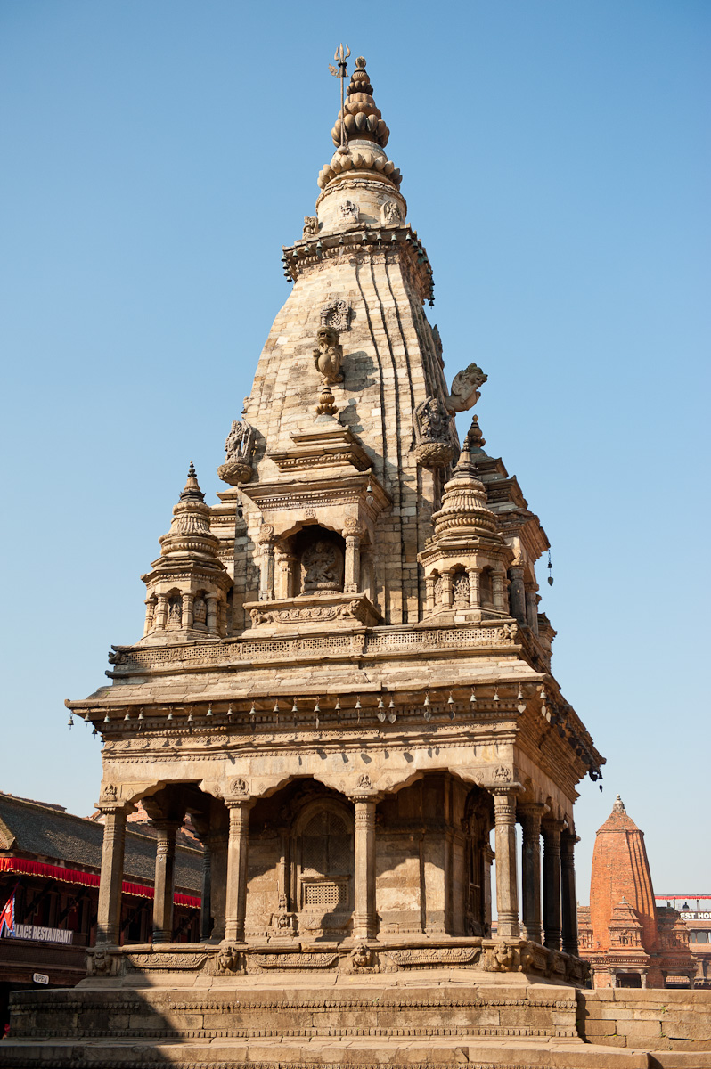 Durbar square, Bhaktapur, Nepal